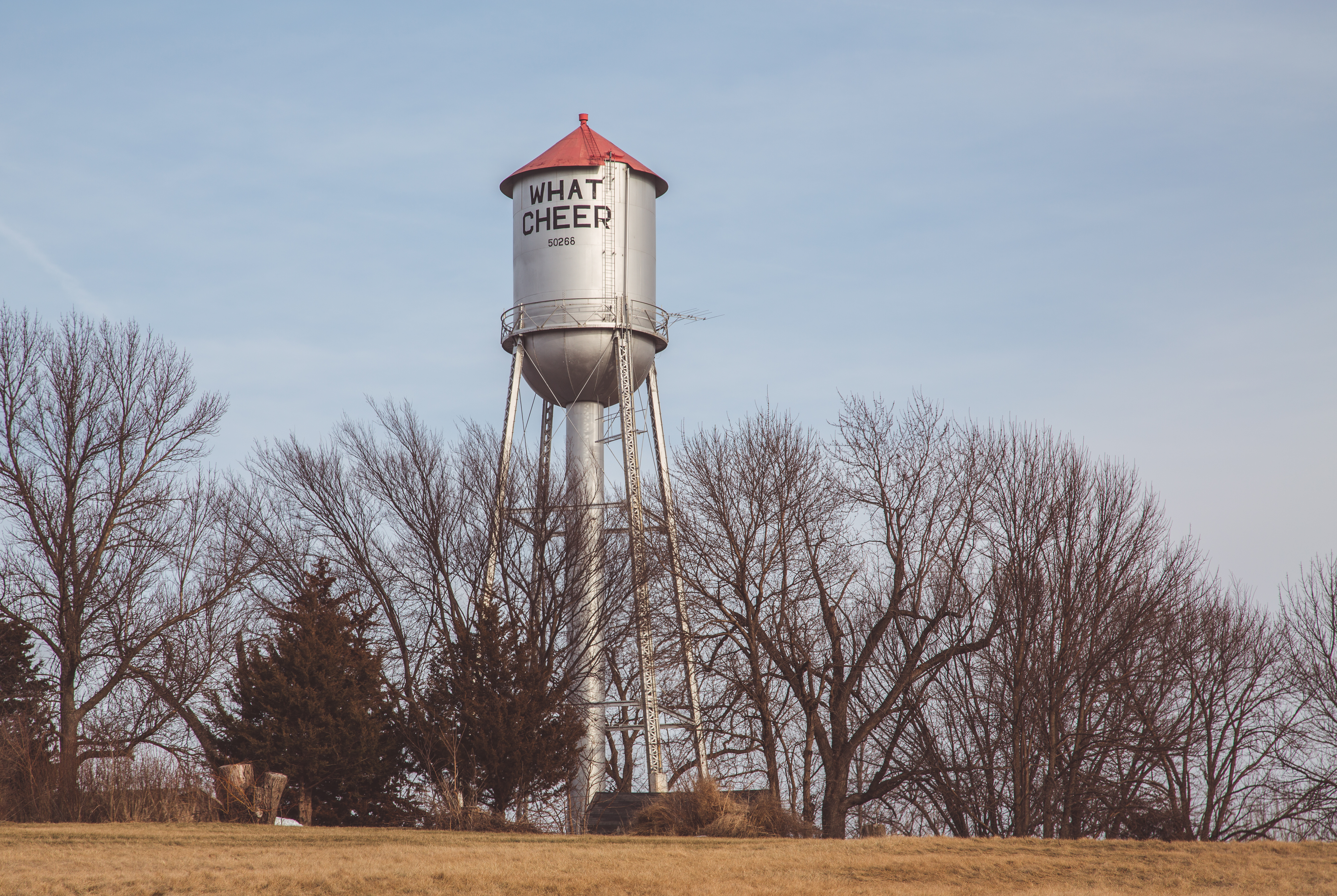 The water tower in the town of What Cheer, Iowa, as viewed from S. Barnes Street.